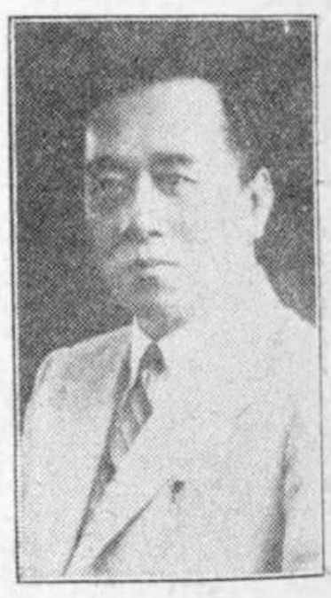 Shi Lüben (Shih Lǚ-pen) (1884? - 1938)